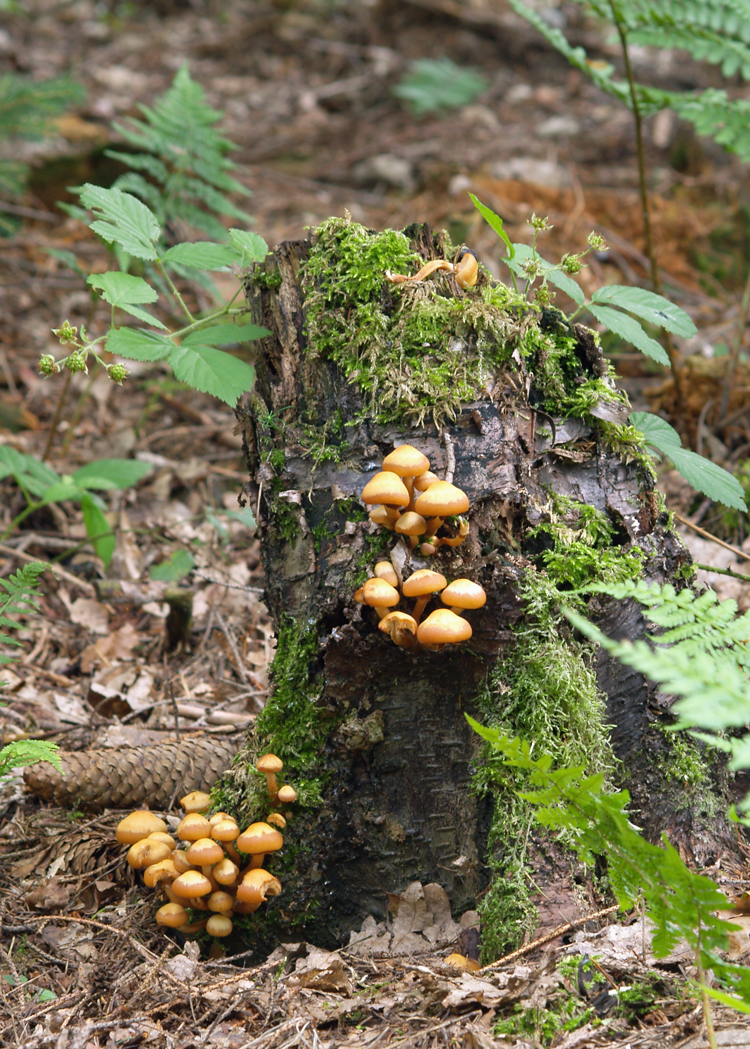 Sheathed Woodtuft (Kuehneromyces mutabilis), nurse log with plant litter, in Hohenstein-Ernstthal, Germany